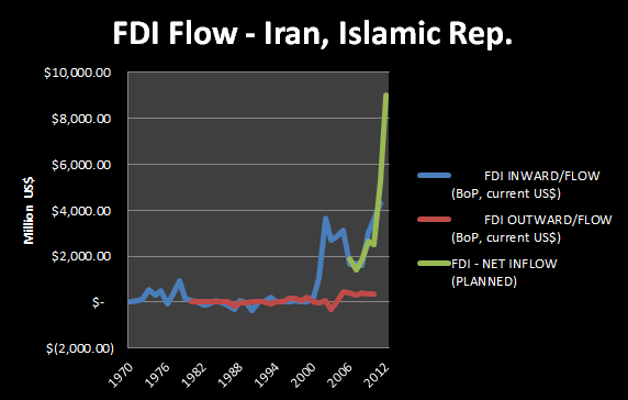 Foreign Direct Investment Flow, INWARD & OUTWARD - Iran, Islamic Republic.